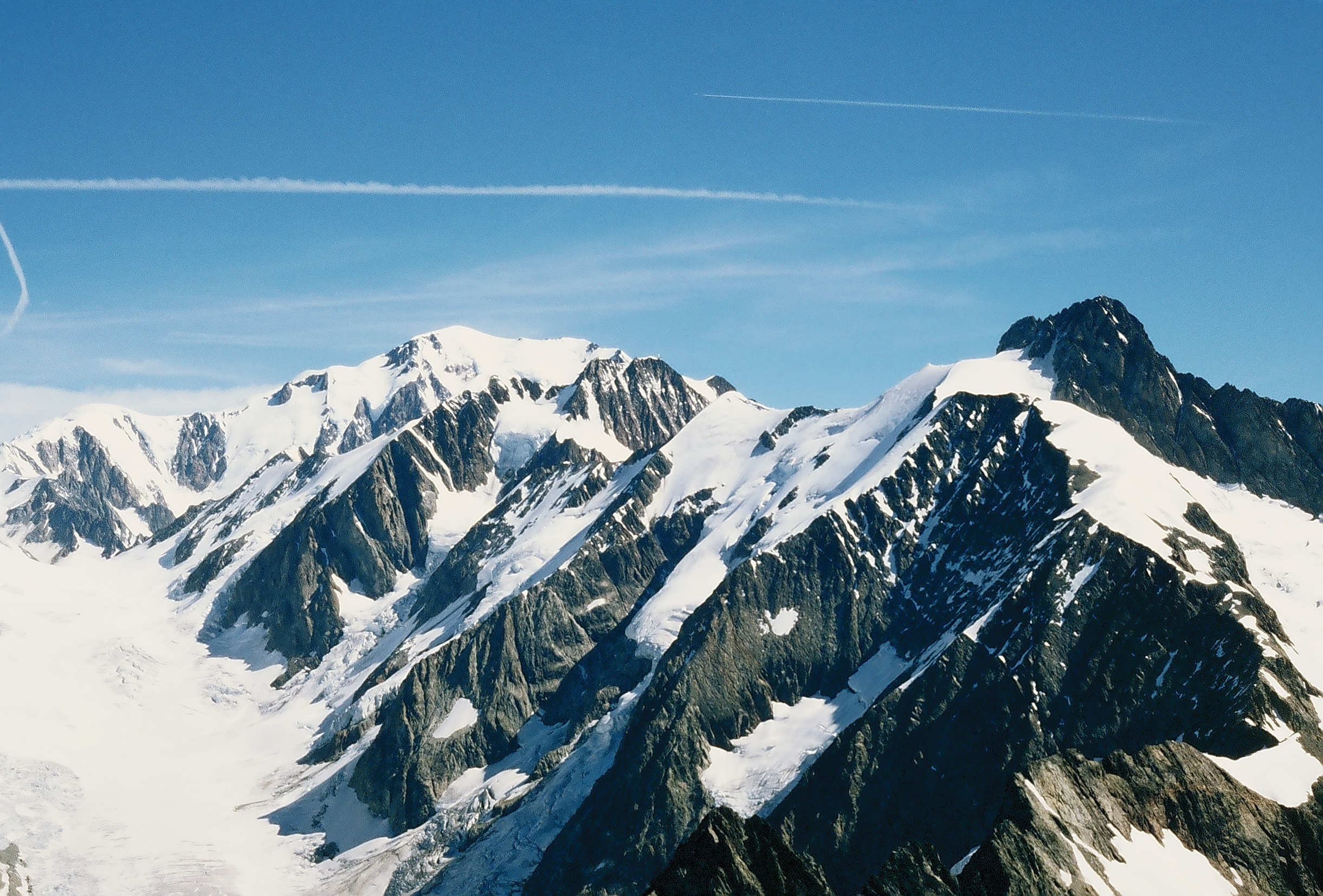 Panoramic view of the highest summits in the Mont Blanc massif (Haute-Savoie, Rhône-Alpes, France): in the foreground the Mont Tondu, and behind the Aiguille des Glaciers, the Mont Blanc et the Dôme du Goûter.